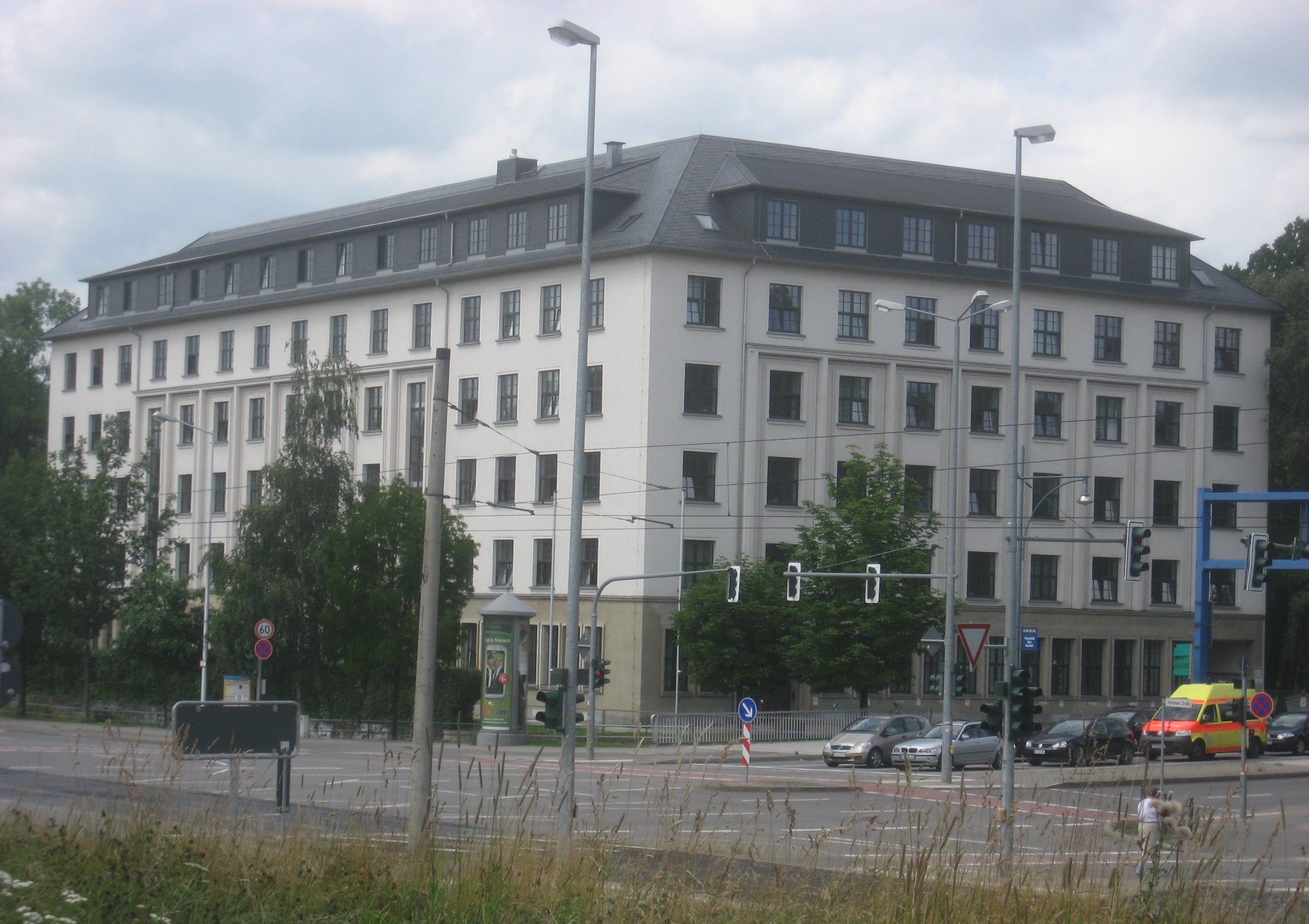 Kommunaler Sozialverband Sachsen, branch office Chemnitz